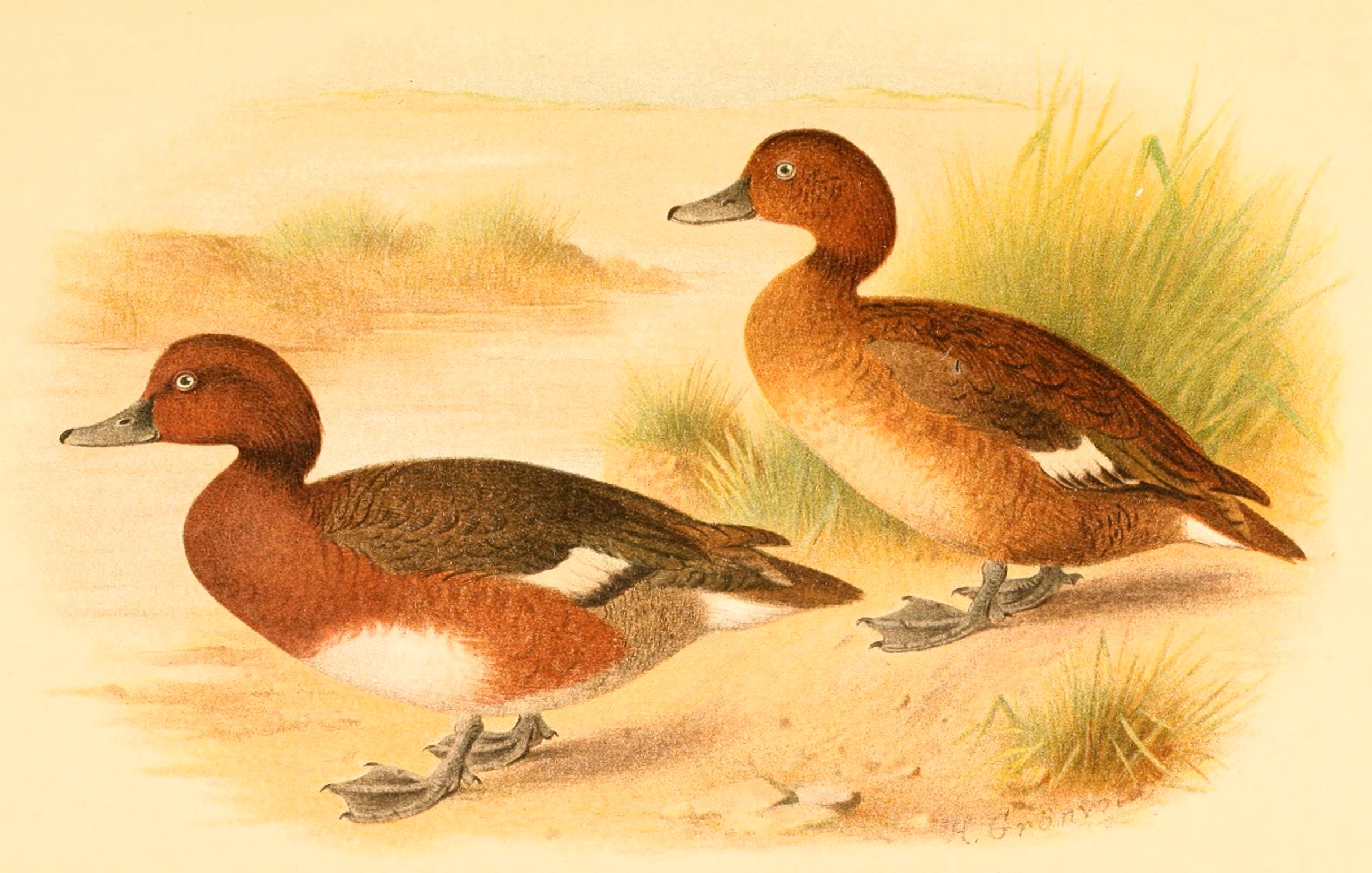 The White-eyed Pochard or White-eye Nyroca n. nyroca = Aythya nyroca nyroca (Subspecies of Ferruginous Duck)